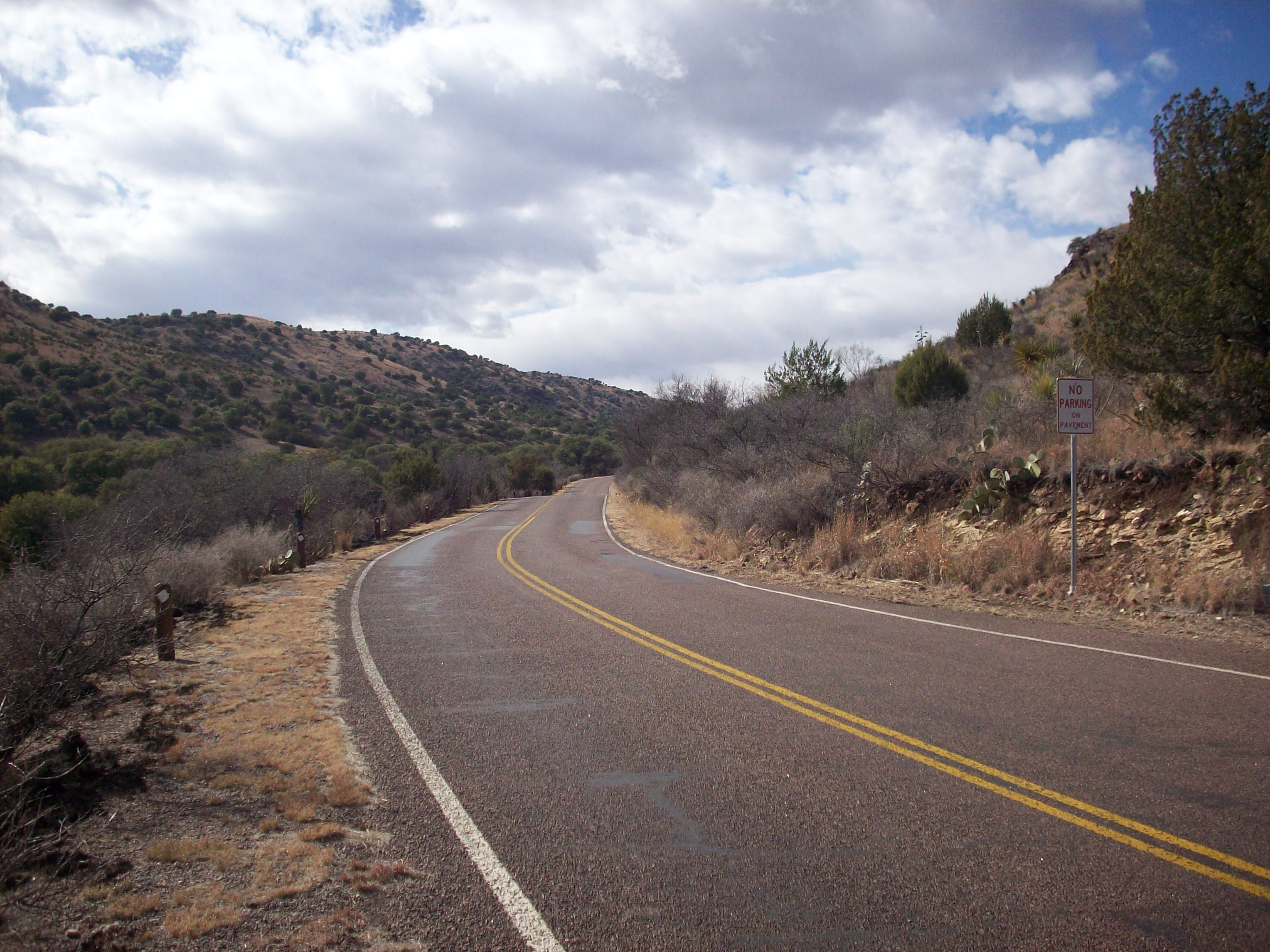 Park Road 3 in Davis Mountains State Park near Fort Davis, Texas